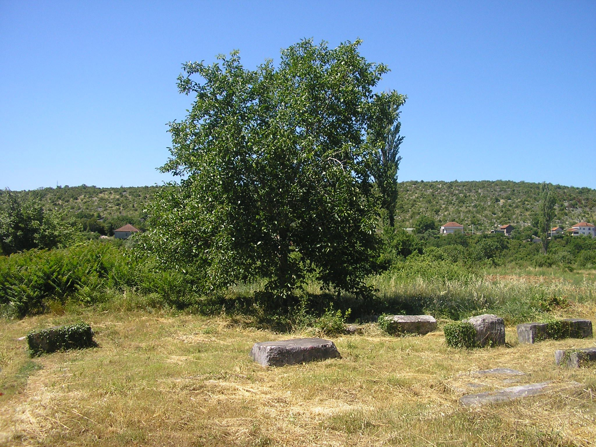 Studenci necropolis